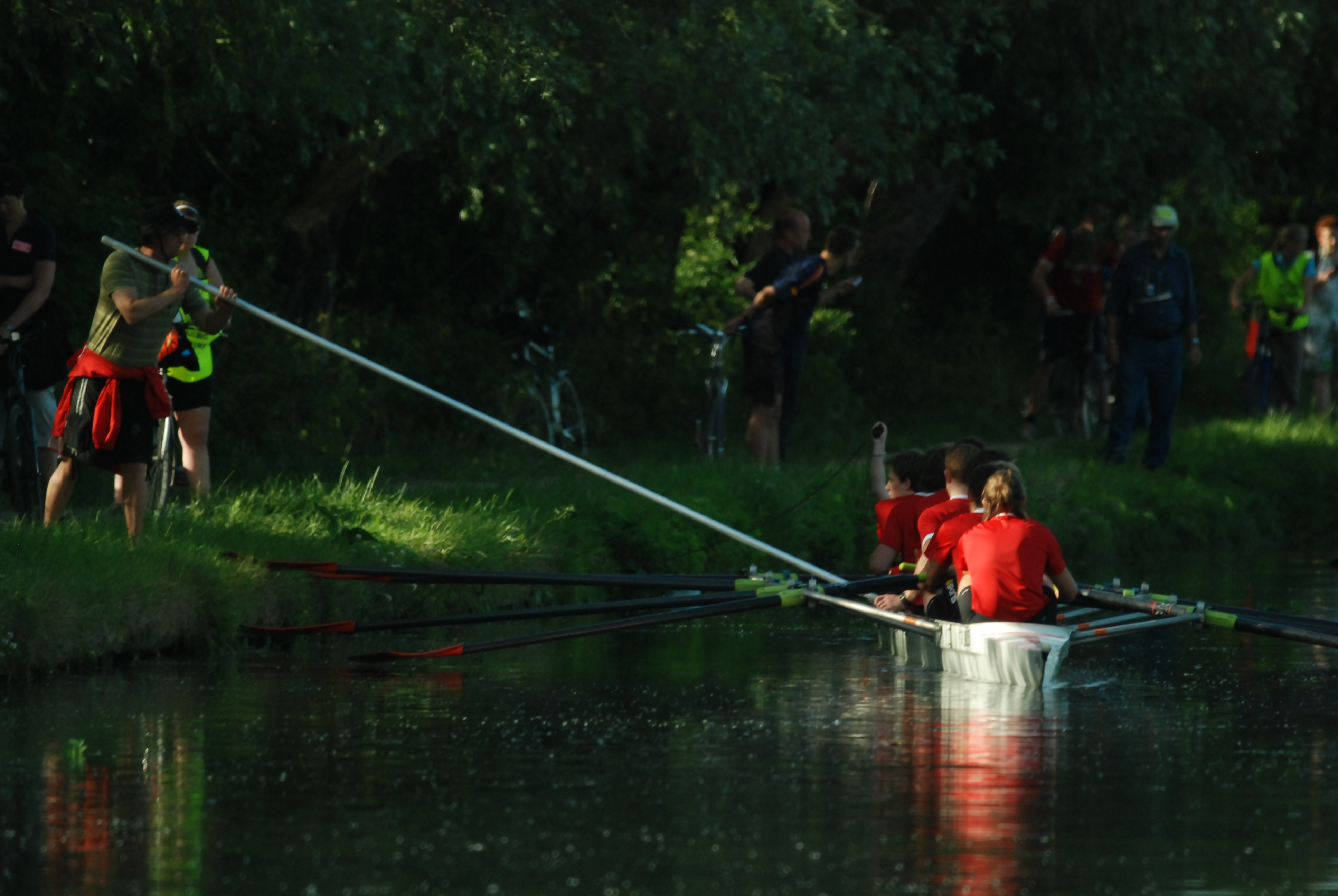 Poling off. Lady Margaret Boat Club mens 2nd boat, friday, May Bumps 2009.